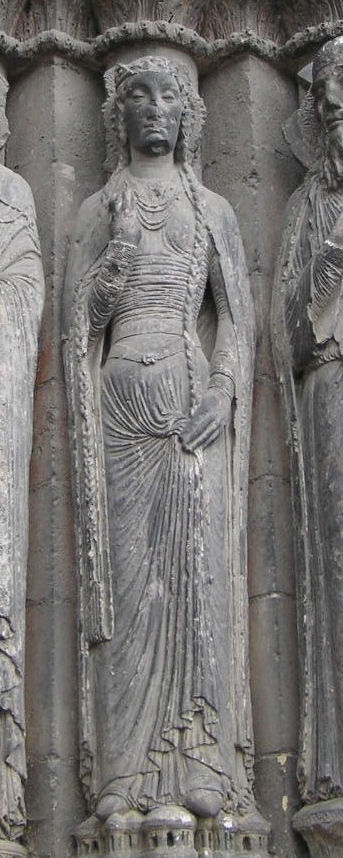 Angers cathedral, France, sculpture at West Portal (detail of existing Commons image :Image:Angers Cathedral sculpture at west door TTaylor.jpg ).